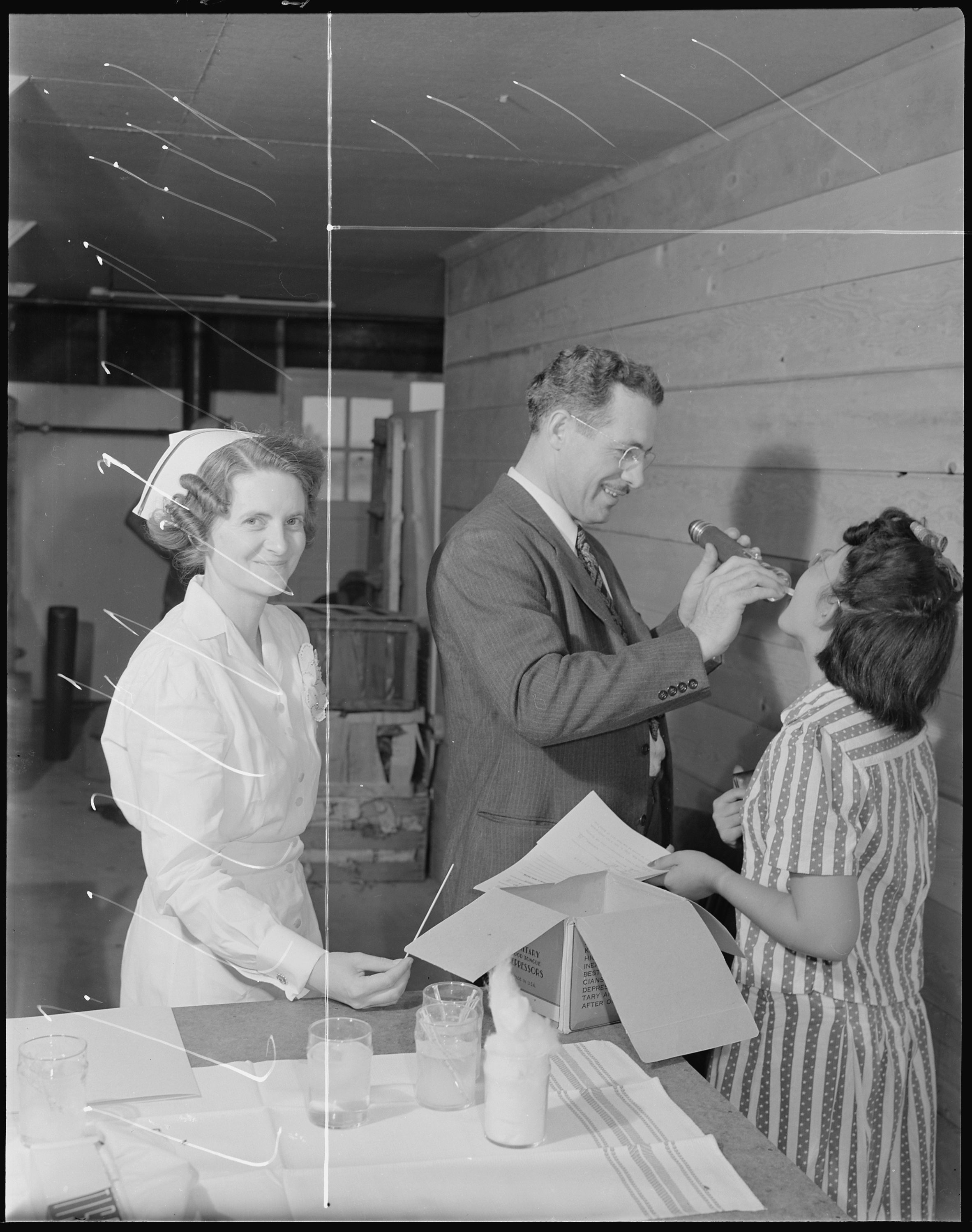 Scope and content: The full caption for this photograph reads: Granada Relocation Center, Amache, Colorado. Doctor Gerald A. Duffy, resident physician, examining the throat of one of the first arrivals.